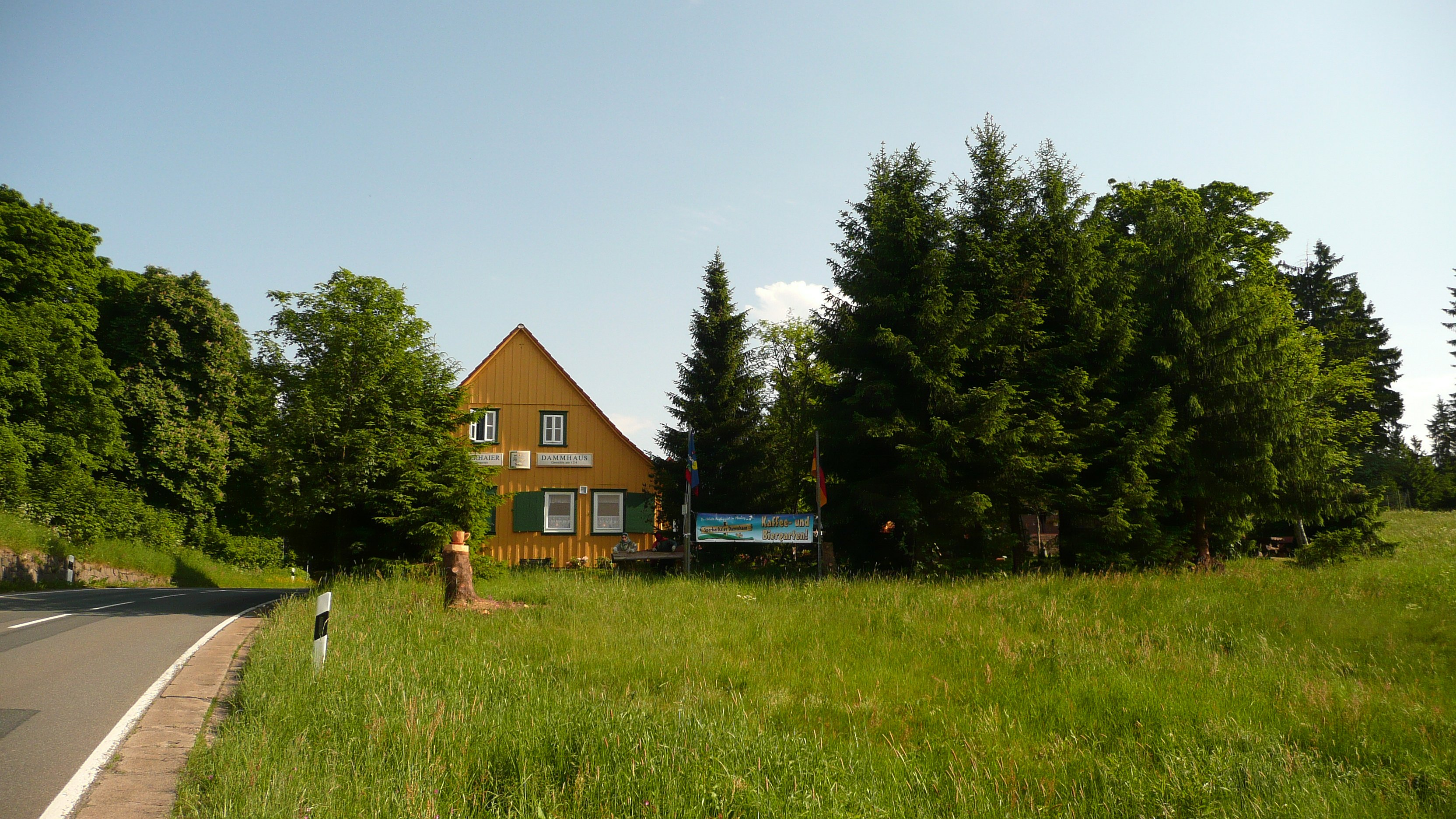 West side of the Sperberhaier Dammhaus